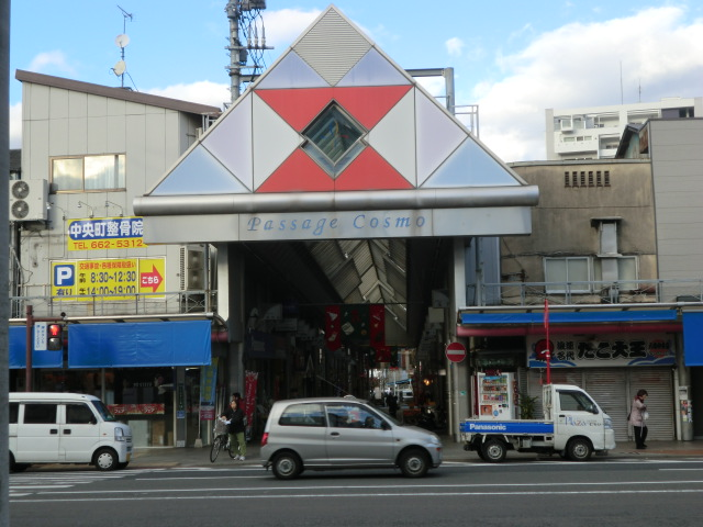 Chuo shotengai(Commercial district) in Yahatahigashi ward,Kitakyushu,Fukuoka.